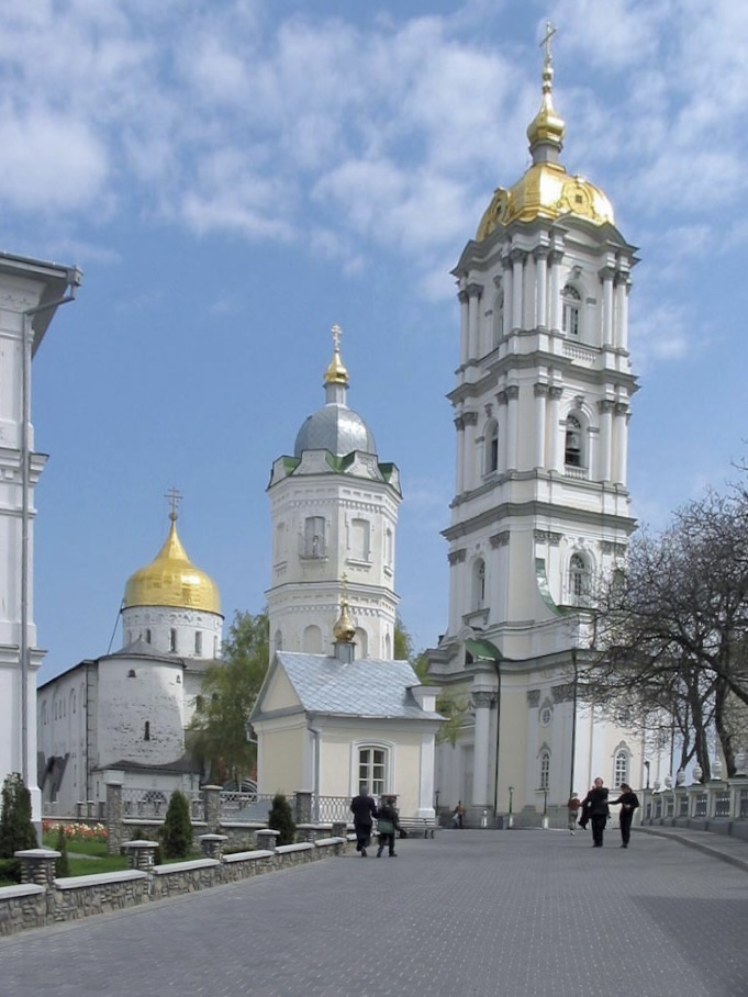 Bellfry of the Pochayiv Lavra